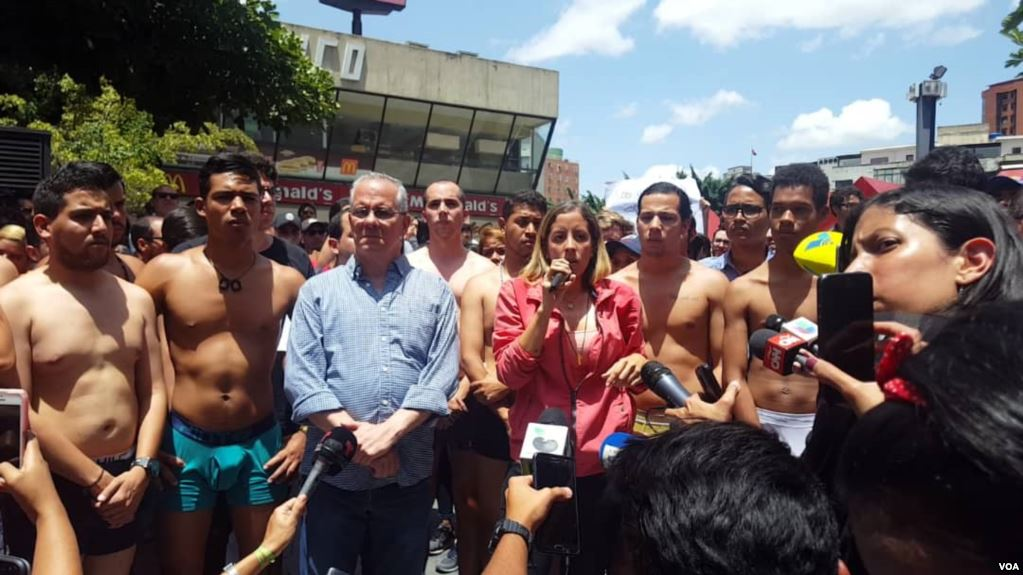 After a video of detained deputy Juan Requesens only wearing underwear is shared by the Venezuelan military agency, Venezuelans protest. Requesens' sister and father speak at a protest.